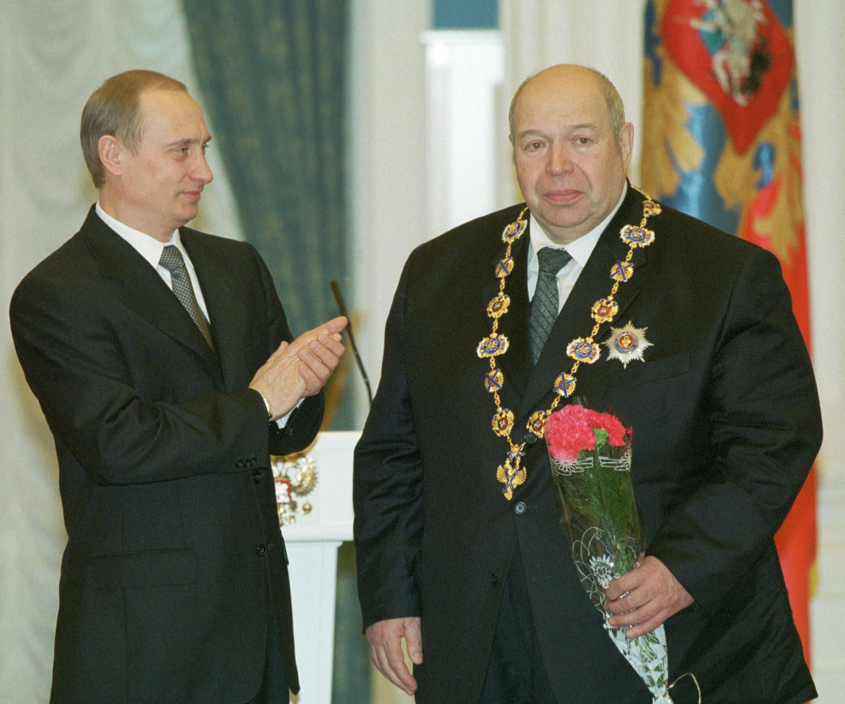 Putin and V. Shumakov